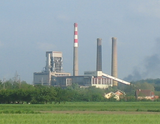 TPP Kolubara A in Veliki Crljeni (viewed from Ibarska magistrala), Lazarevac municipality,Serbia.